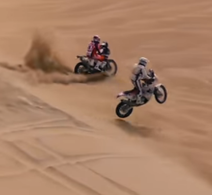 Dakar 2018. Motos (Pabiska) running at Pisco-Ica dunes. Perú. Stage 2. Taken from Video "DAKAR 2018 - Etapa 2. Pisco - Pisco" (Barth Racing).